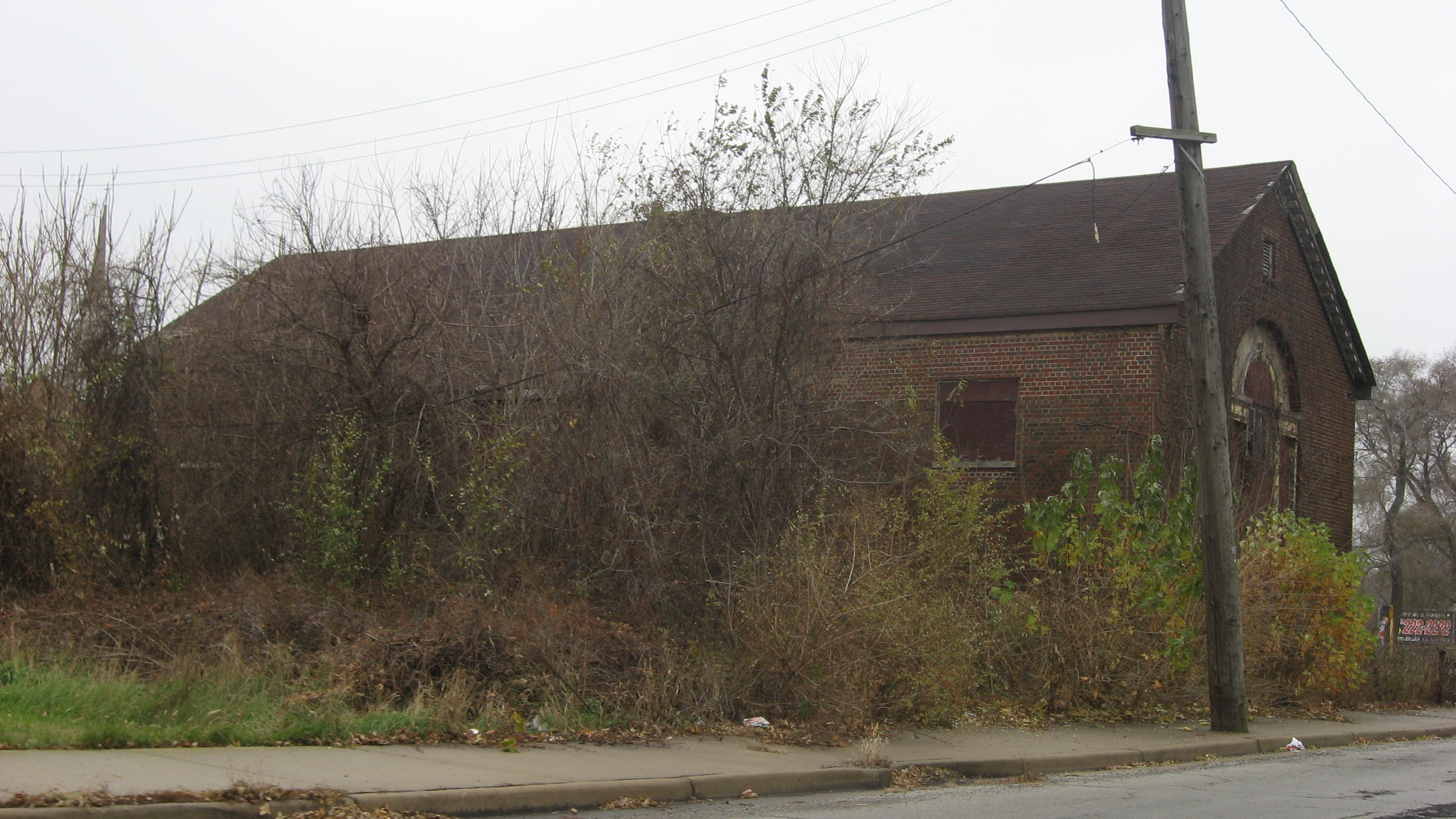 Northern end and rear of the Louis J. Bailey Branch Library-Gary International Institute, located at 1501 Madison Street in Gary, Indiana, United States. Built in 1918, it is listed on the National Register of Historic Places.